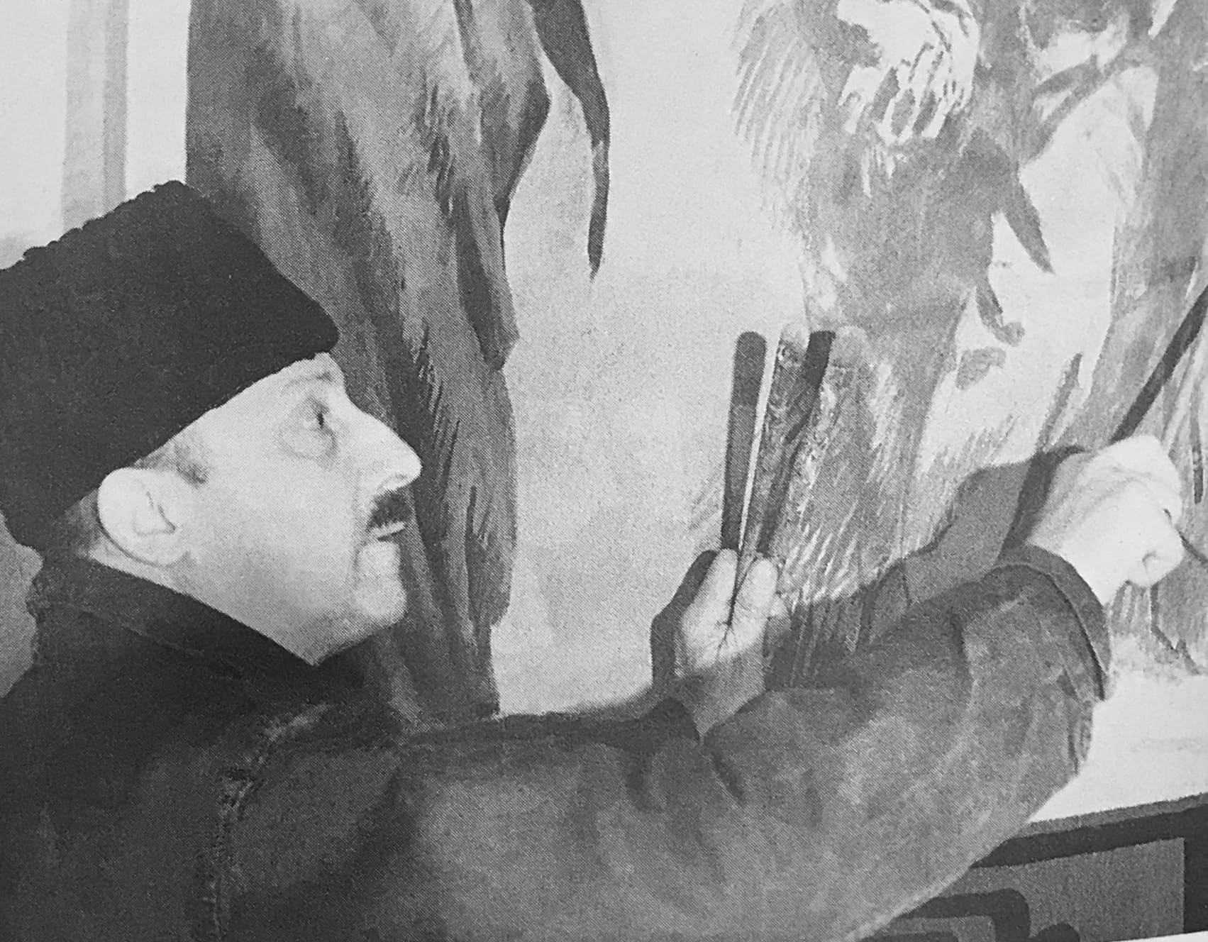 The artist working on a sketch of the panel for the Kazanskiy Railway Station